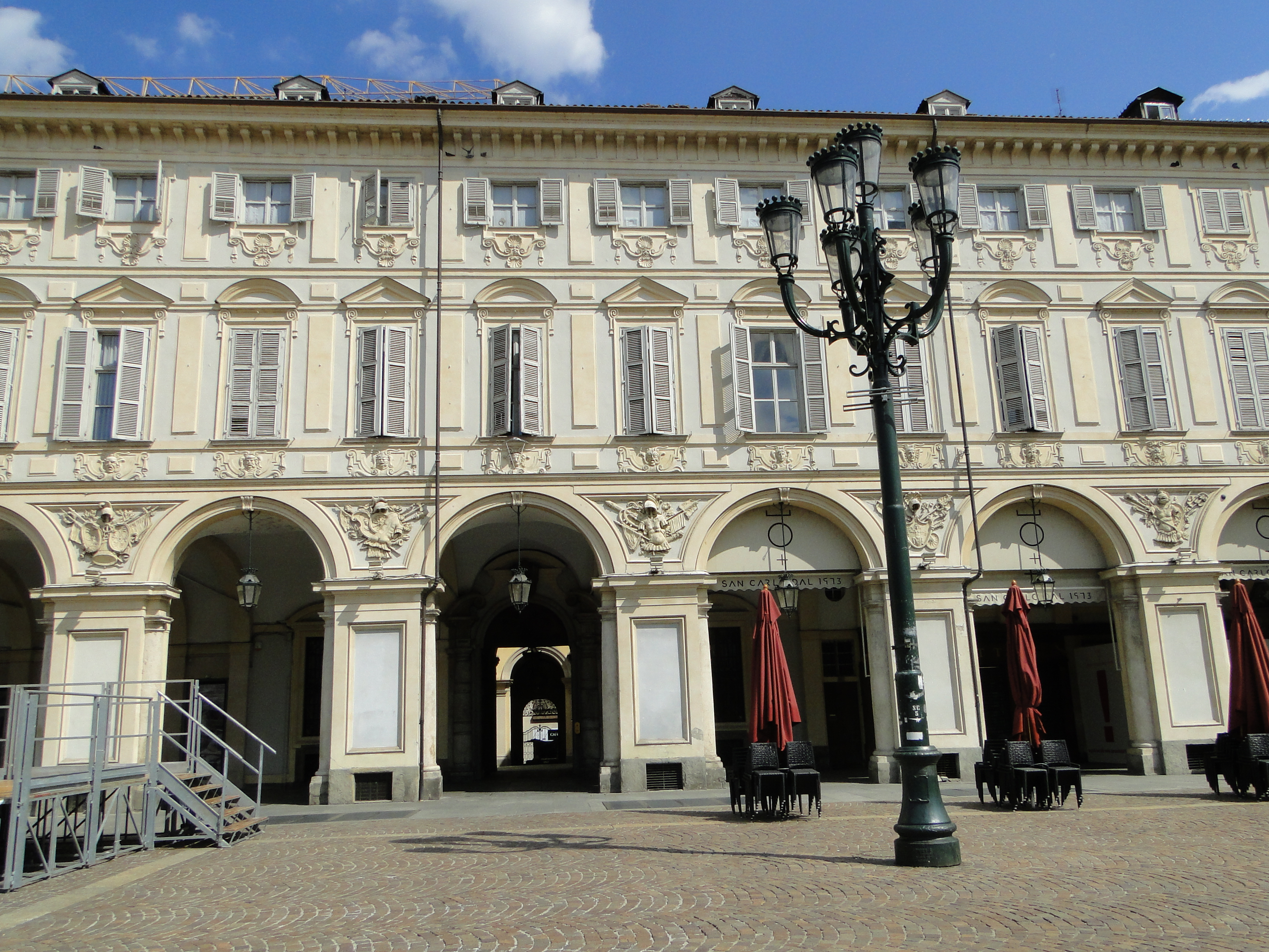 Palace Solaro del Borgo (or Palace Isnardi di Caraglio) in Turin - San Carlo square